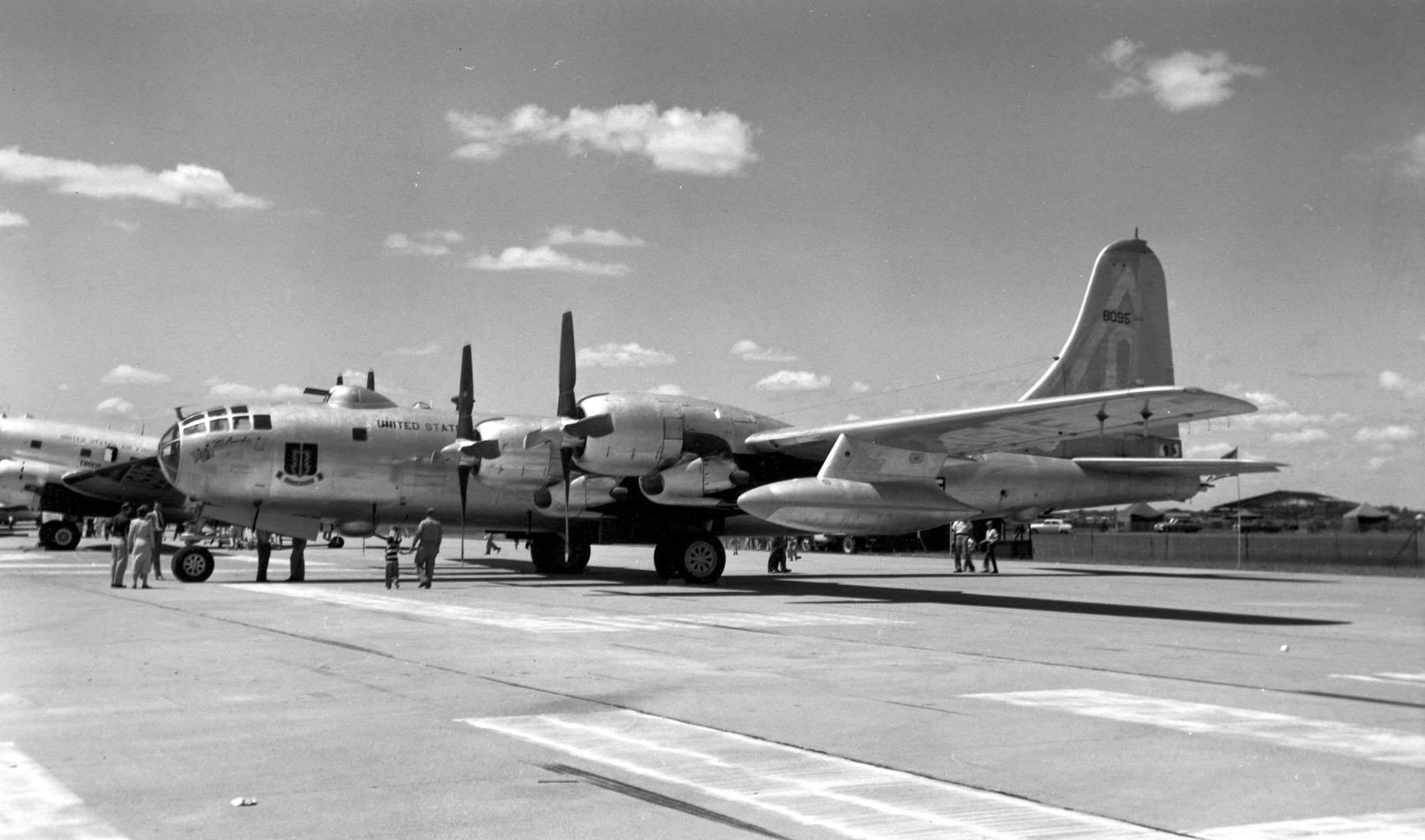 Boeing B-50D-95-BO (97th Bombardment Wing, early 1950s)